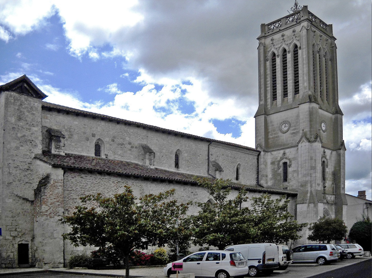 Resized image